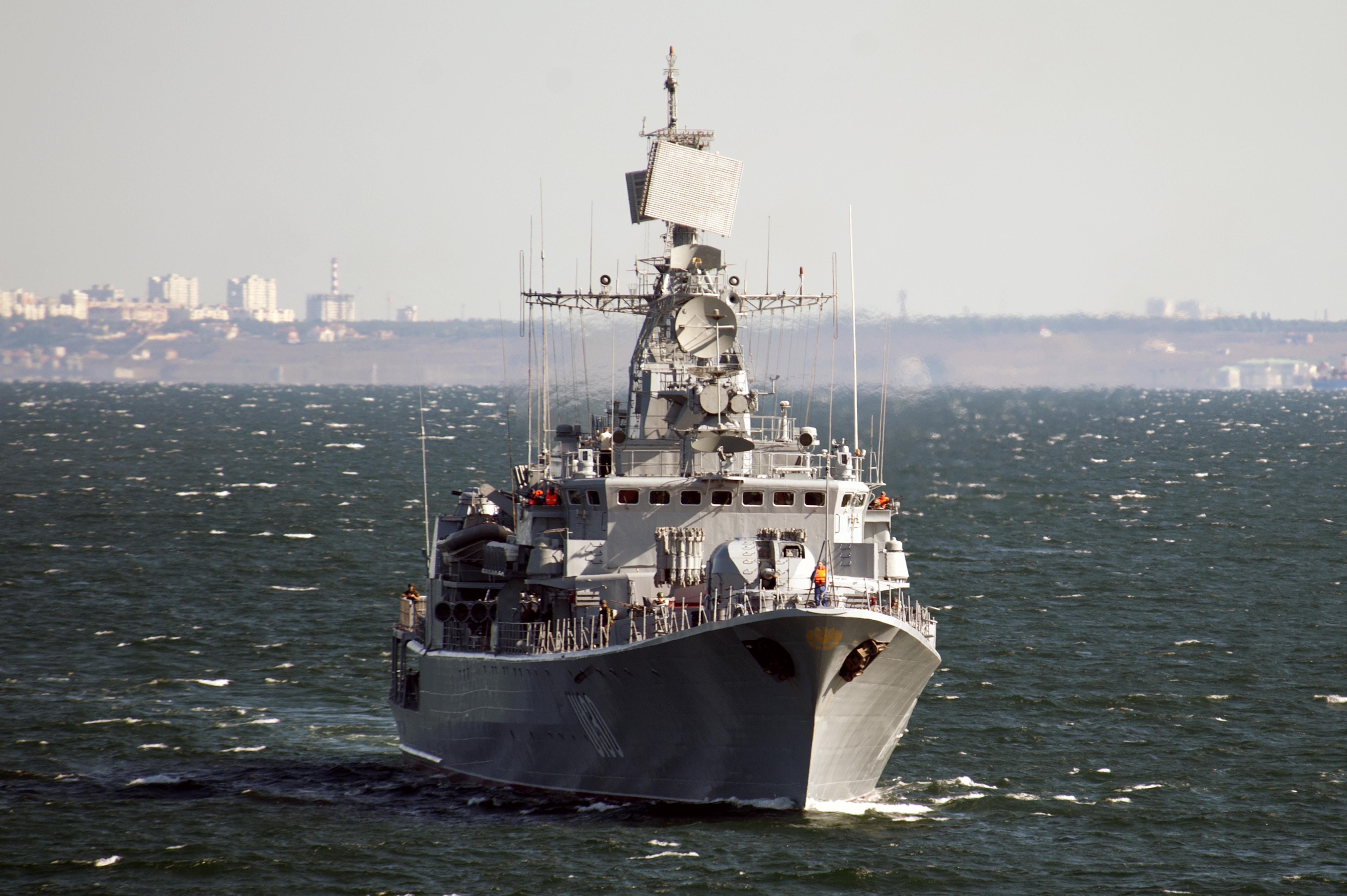 BLACK SEA - Ukrainian navy frigate Hetman Sahaydachniy (U 130) participates in a mine counter measure exercise during Exercise Sea Breeze 2012 (SB12). SB12, co-hosted by the Ukrainian and U.S. navies, aims to improve maritime safety, security and stability engagements in the Black Sea by enhancing the capabilities of Partnership for Peace and Black Sea regional maritime security forces.